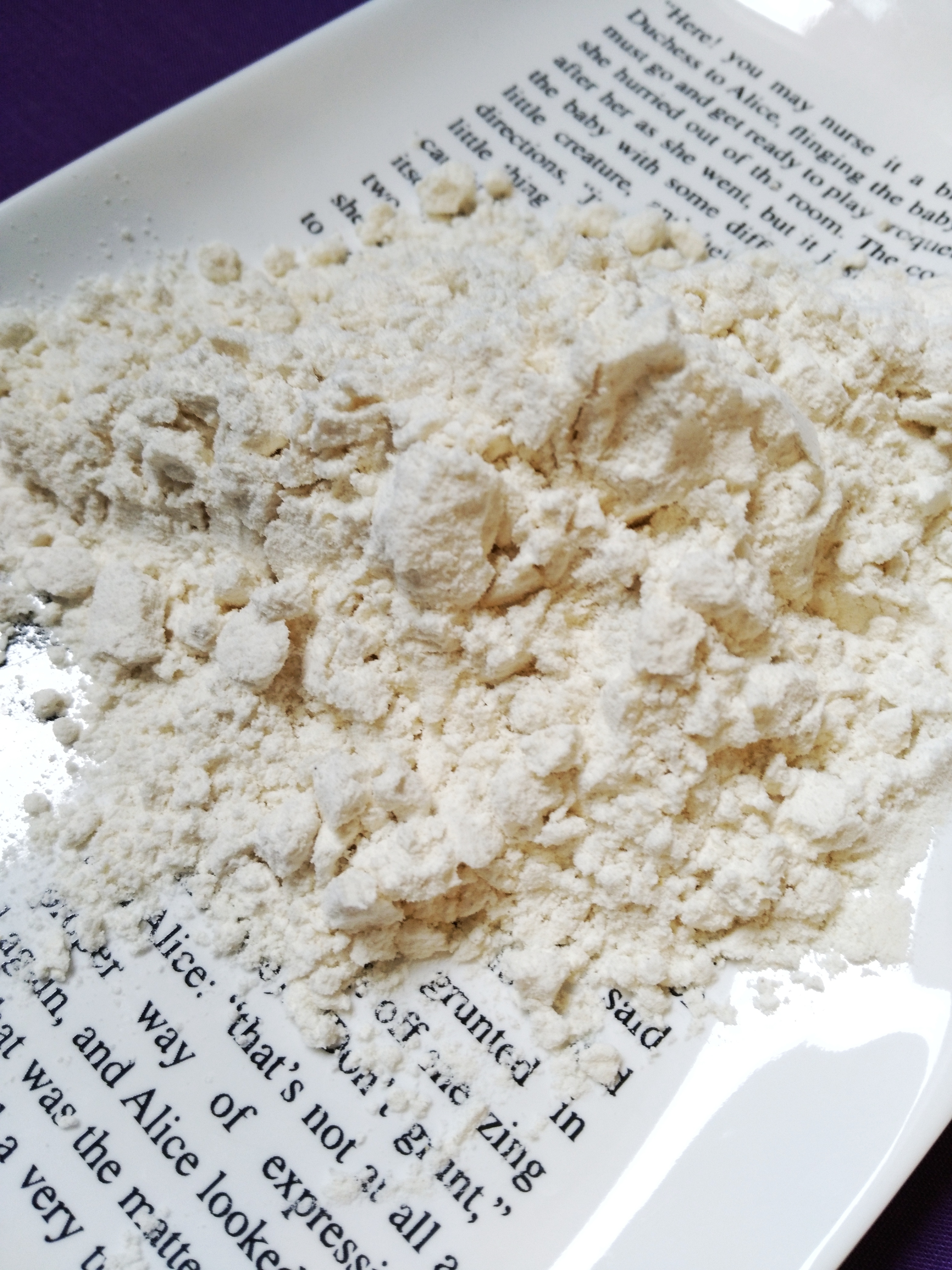 Anjeunbaengi wheat flour